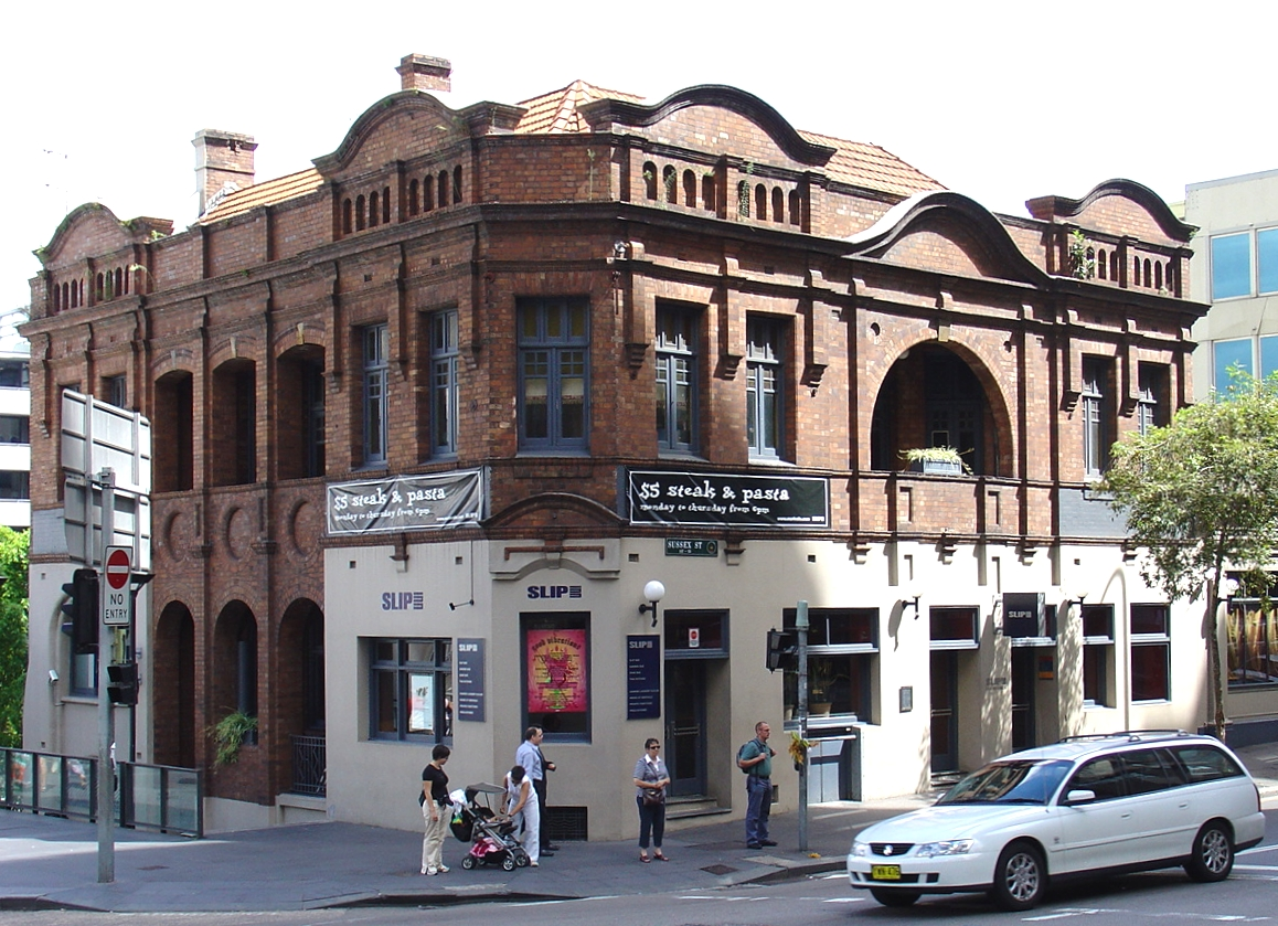 The former Royal George Hotel building, Sussex and King Streets, Sydney, photographed in April, 2004. In earlier years, the Sydney Push met in the "back room", at ground floor left. Taken by Bjenks on 21 April, 2004 using Sony DSC VI digital camera.